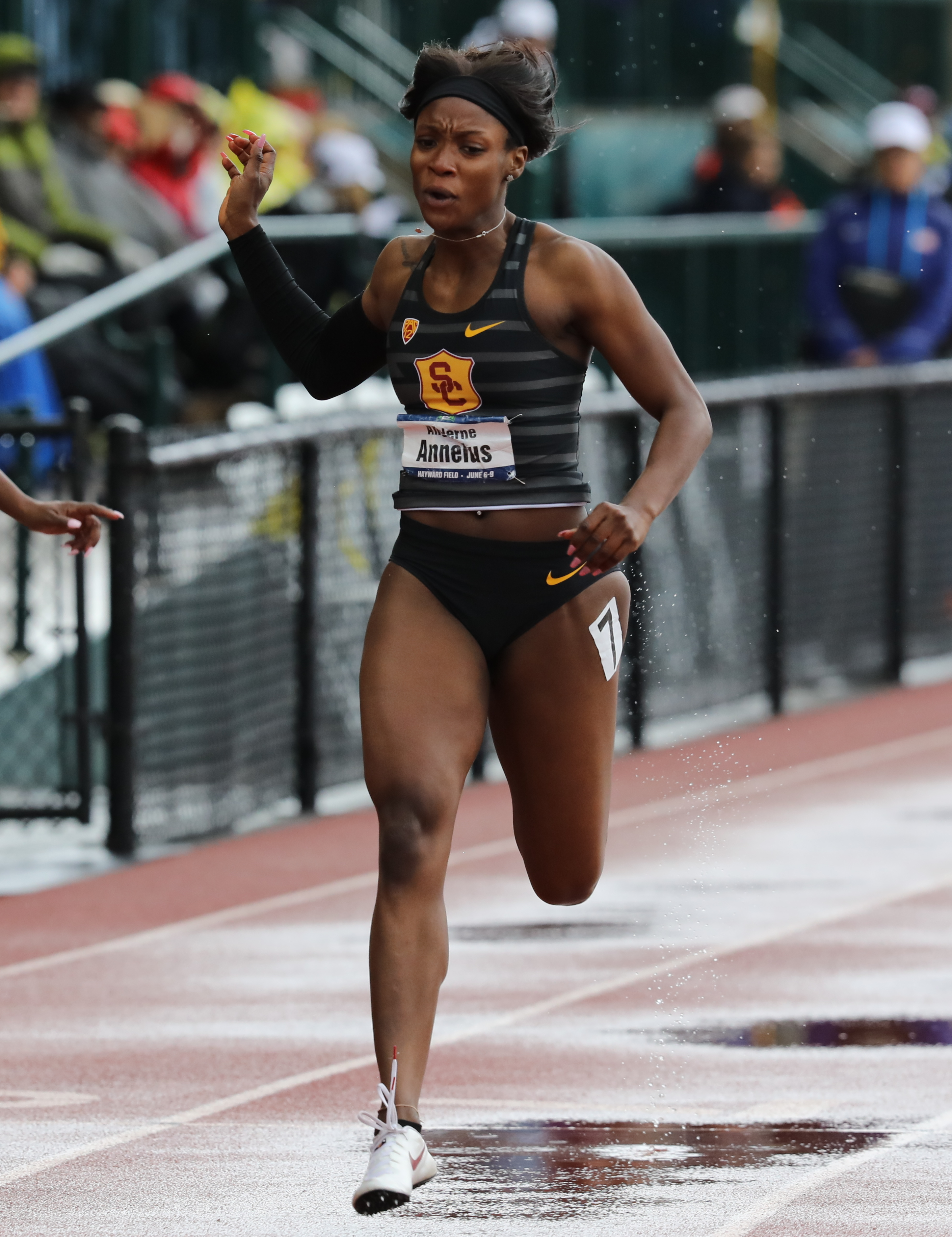 2018 NCAA Division I Outdoor Track and Field Championships